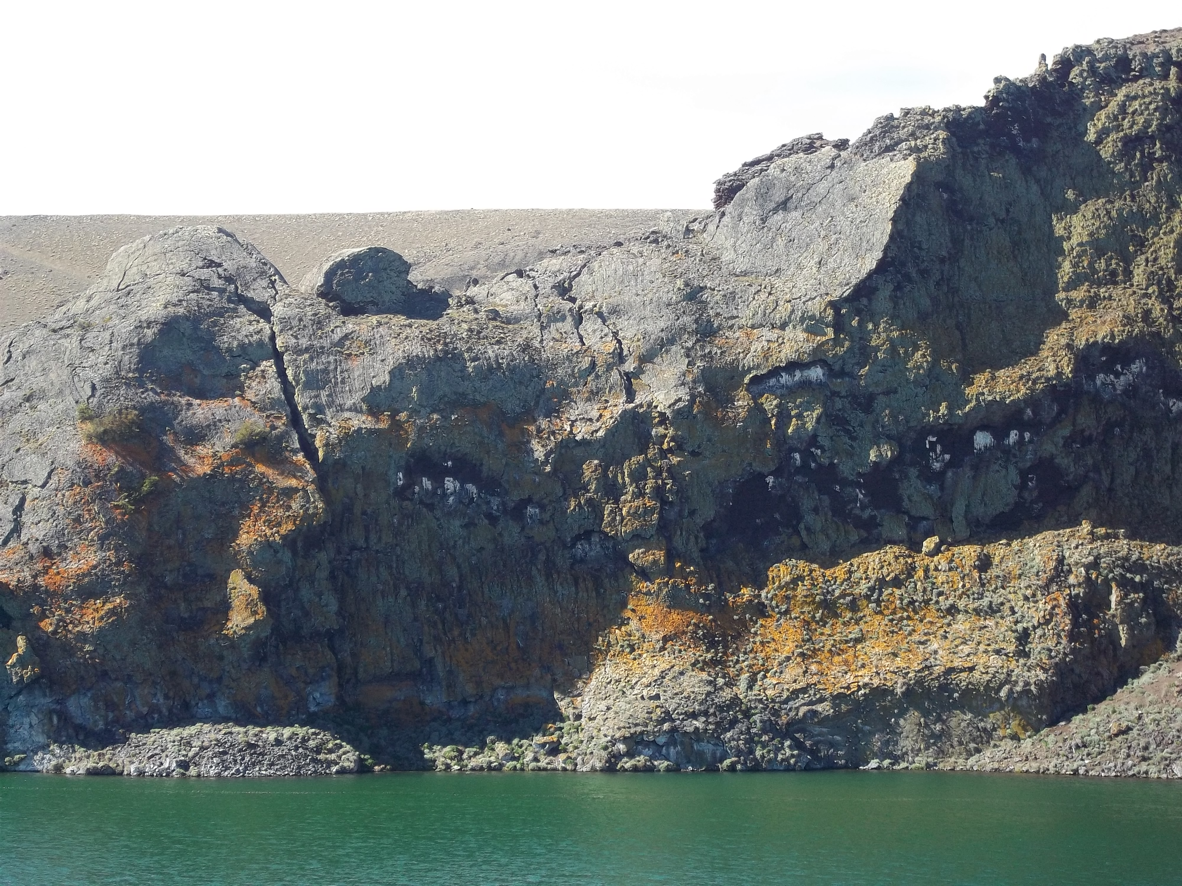 Cliff on the eastern wall of the crater of the Laguna Azul (Argentina). White spots produced by the guano of birds that nest there. Yellow-orange color due to the lichen growing on basaltic rocks.